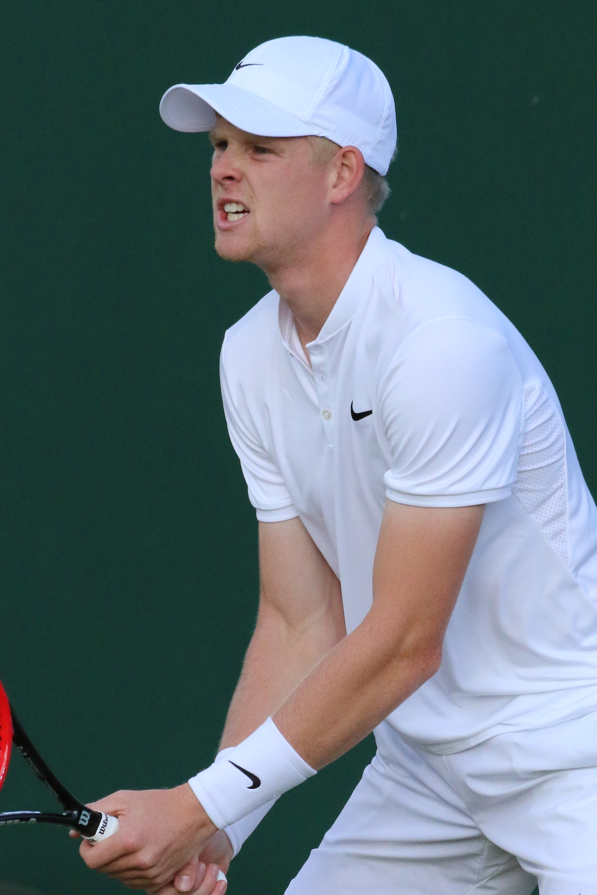 Edmund WM16 (10)